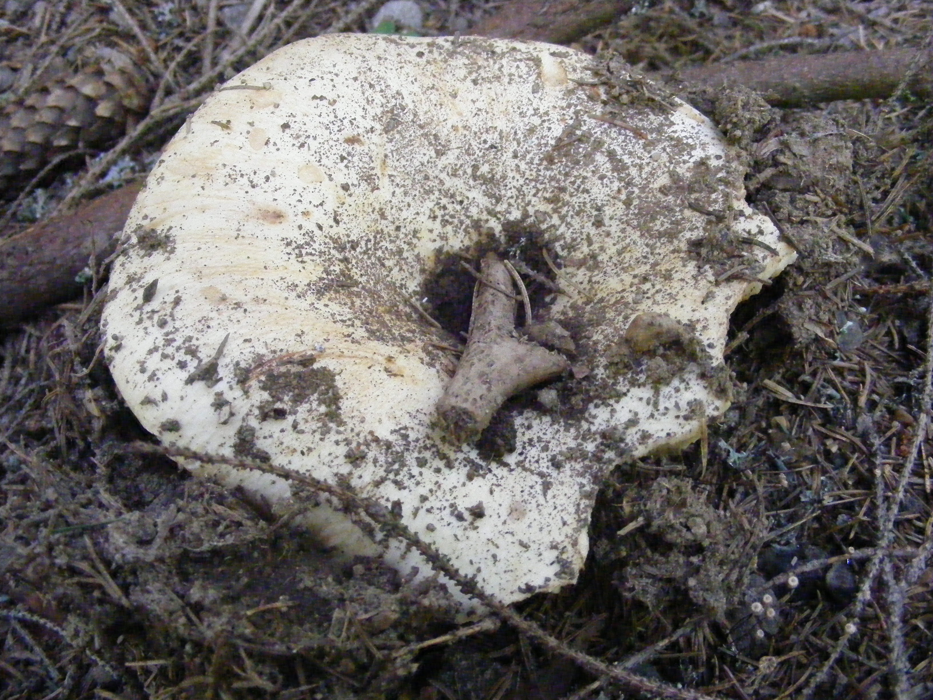 Russula delica